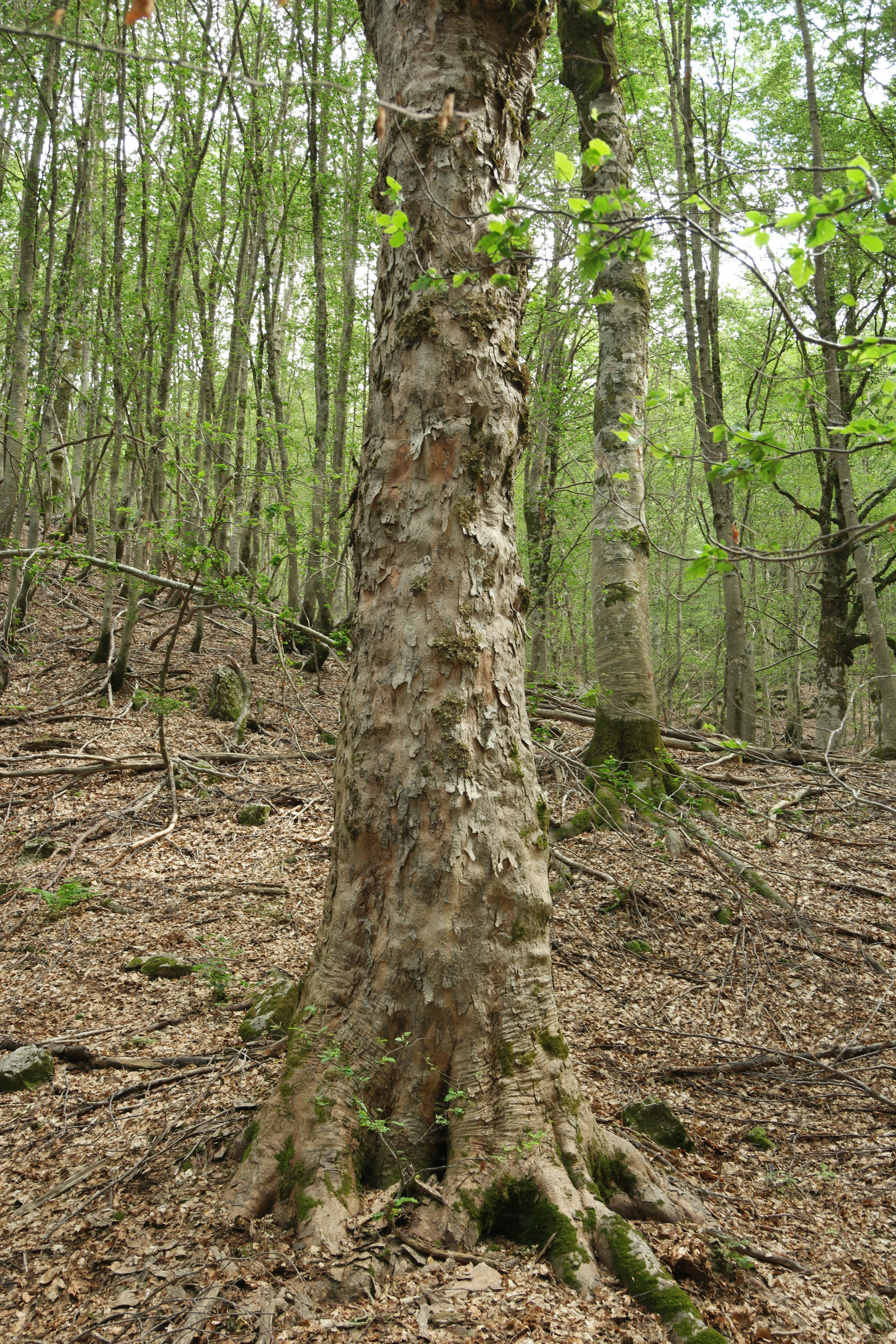 Acer pseudoplatanus in primeval forest at 1350 m, Ilijin do Opaljika Bijela gora in Montenegro